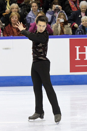 Patrick Chan skates.